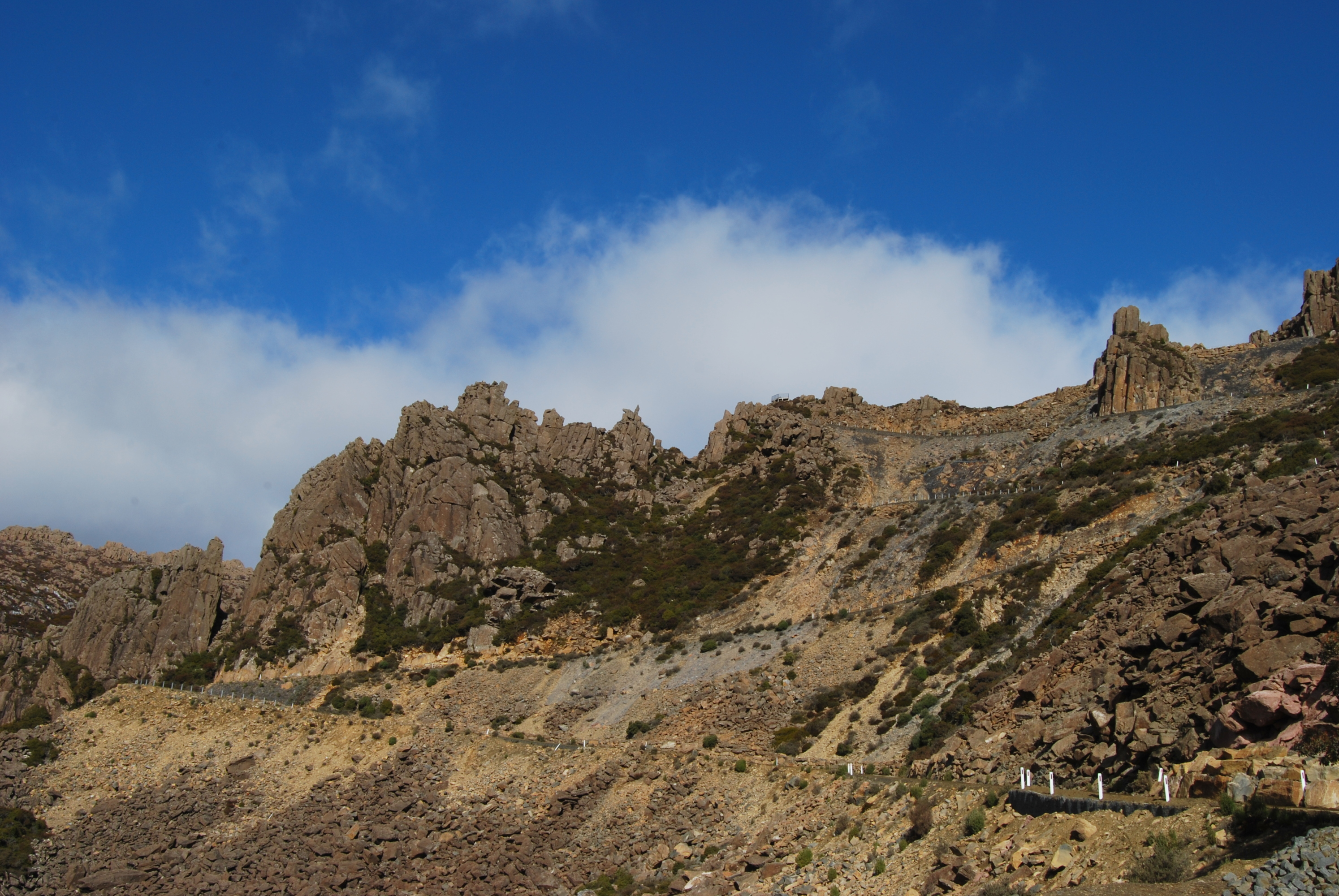 Steep Zig Zag road up the side of Ben Lomond, Tasmania, Australia. Leads up to the snowfields